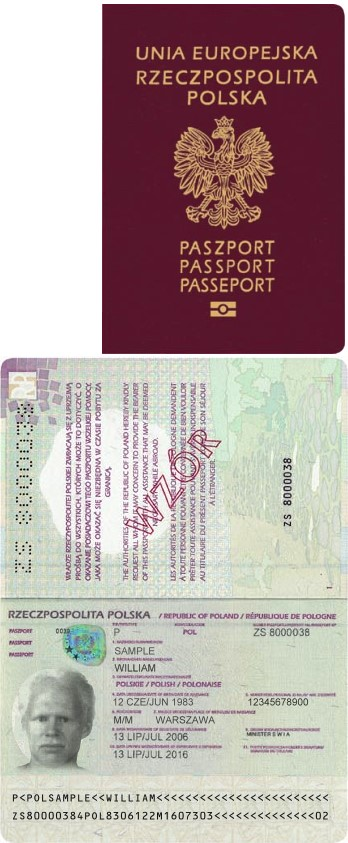 Voided Specimen of a current Polish passport. Image of passport's front cover and bearer’s details page. WZOR is Polish for SPECIMEN.